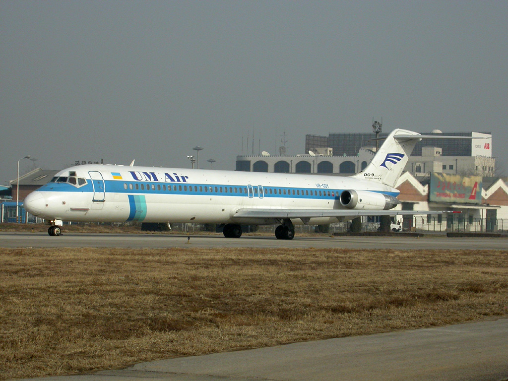 UM Air DC-9-51 still partly in the livery of its previous owner, Finnair, at Beijing Airport